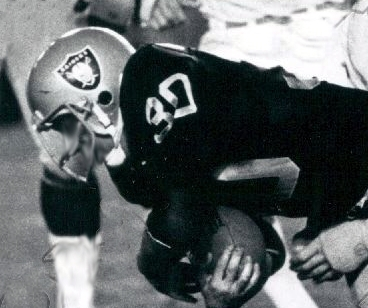 Oakland Raiders running back Mark van Eeghen rushing the ball against the Miami Dolphins during an October 8, 1979 game at Oakland–Alameda County Coliseum.